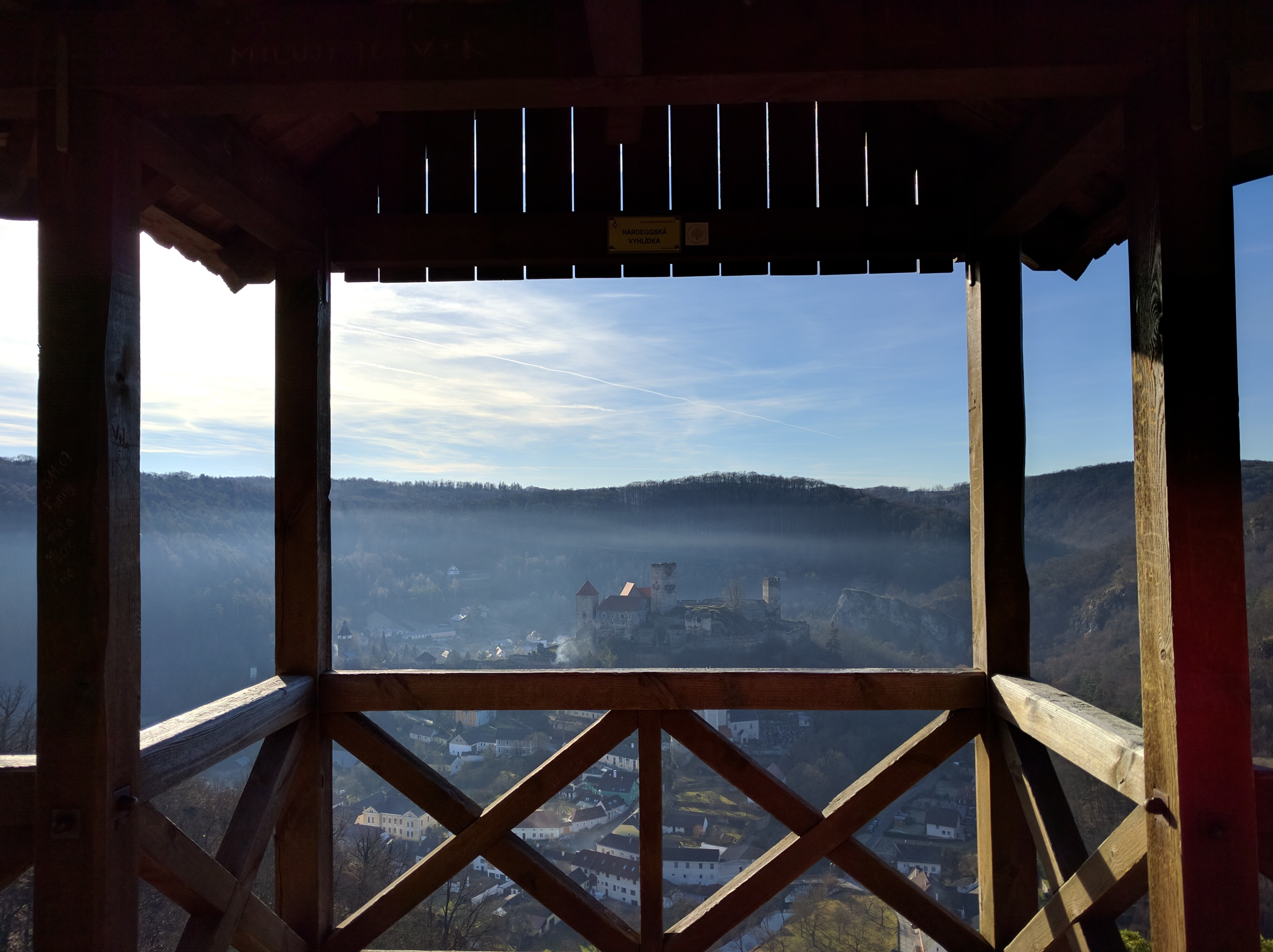 Hardegg castle viewed from the Hardegger Blick, Czech Republic